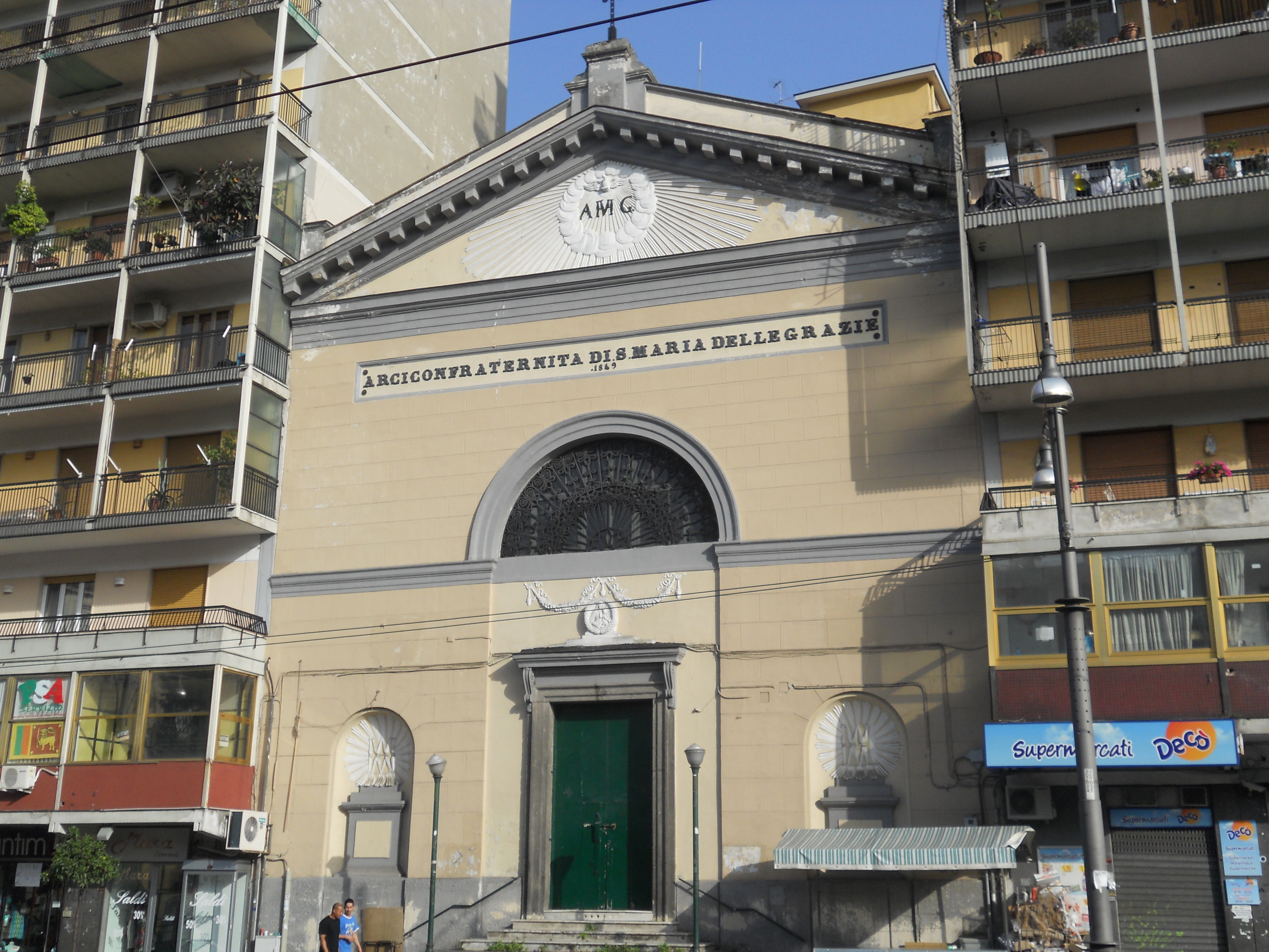 Church of Santa Maria delle Grazie (Cavour Square)